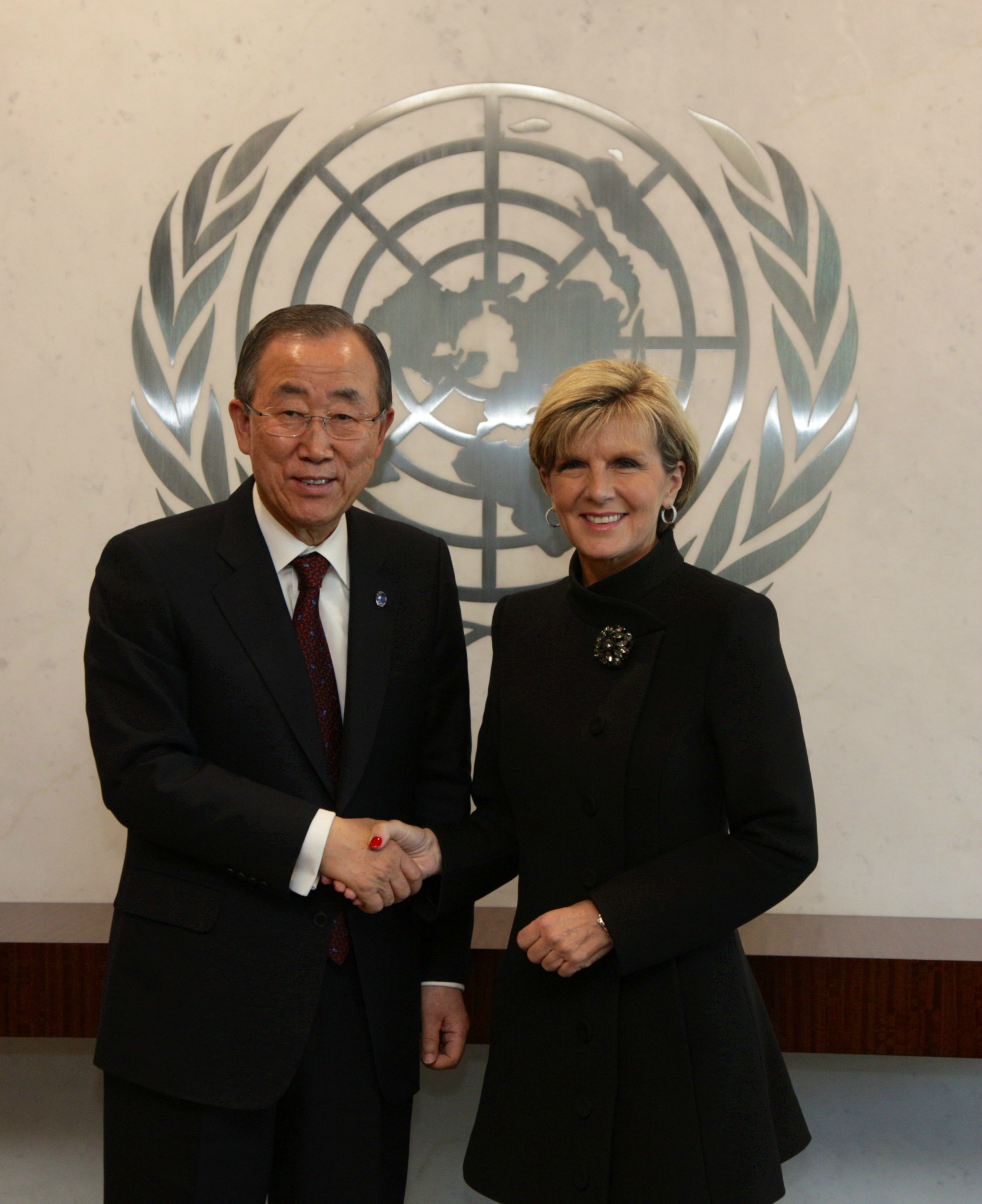 Foreign Minister Julie Bishop meets with UN general Secretary, Ban Ki-Moon